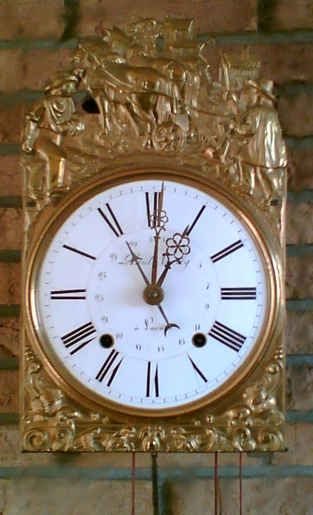 Comtoise clock in my parents house. Picture taken with Nokia6230i cameraphone.